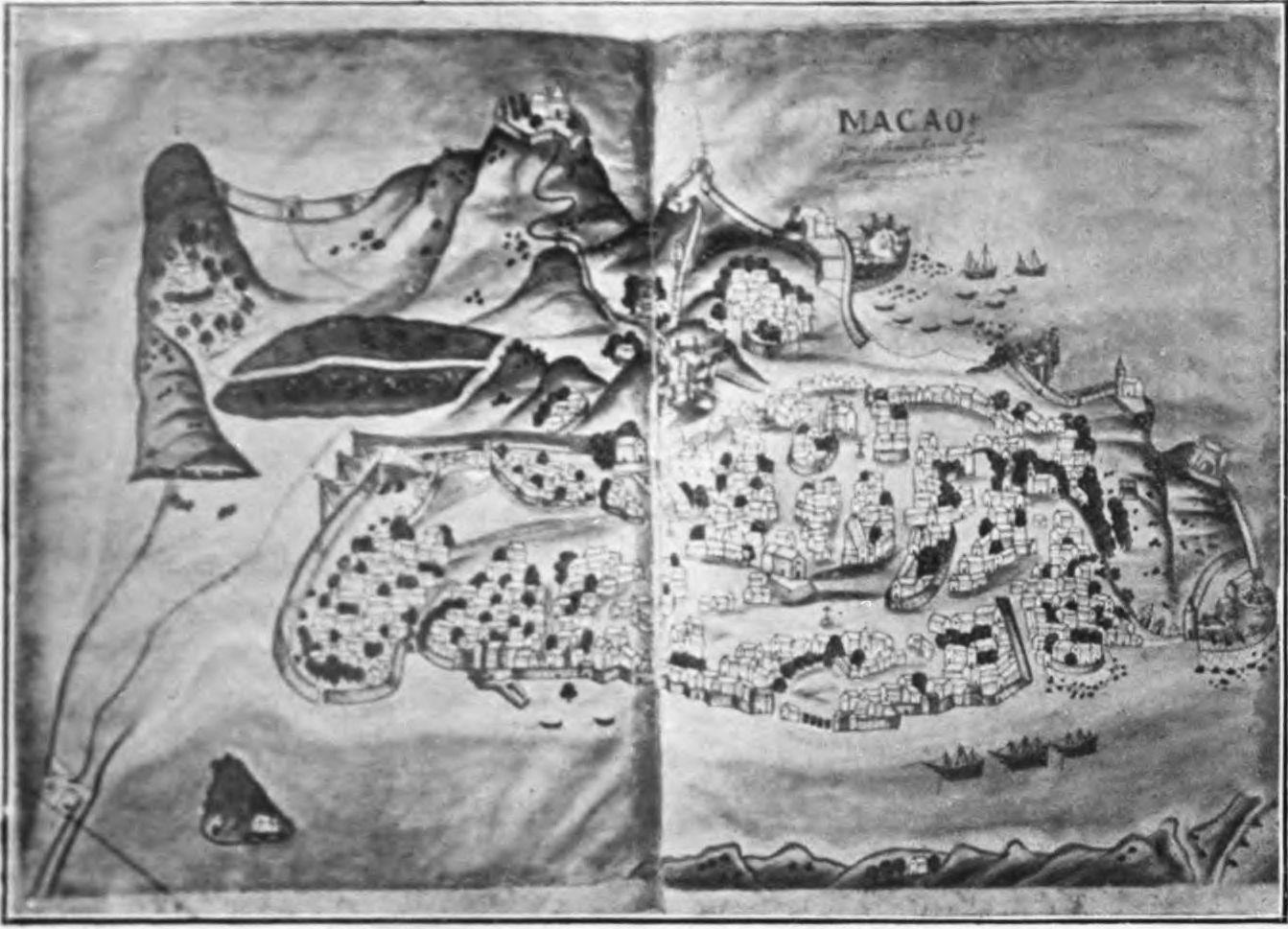 An ancient map of Macao